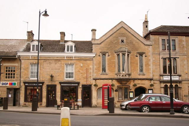 Town Hall Market Deeping Town Hall built in 1839